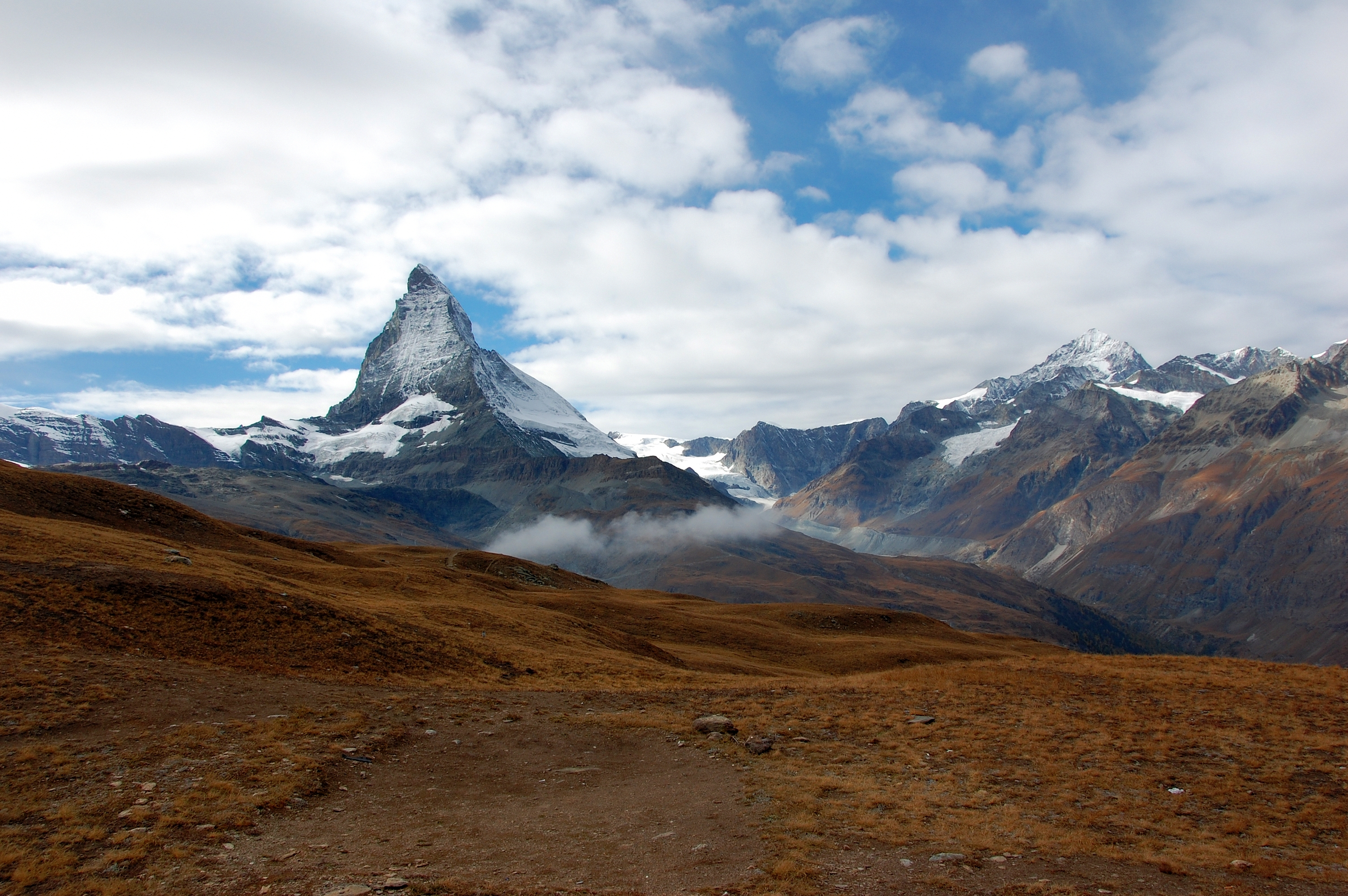 A picture of the Matterhorn taken by Noel Reynolds.